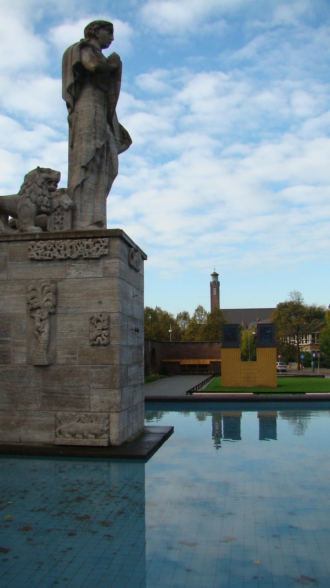 Van Heutsz-monument. A design by Frits van Hall and architect Gijsbert Friedhoff in 1935.